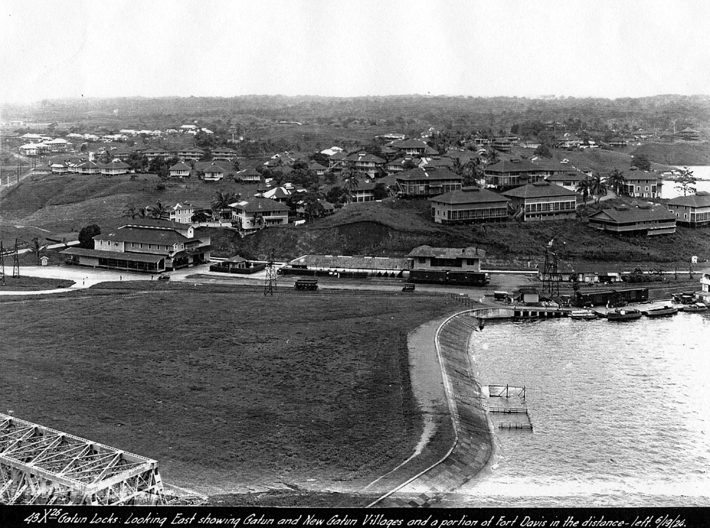 View of Gatun, Canal Zone, Panama.